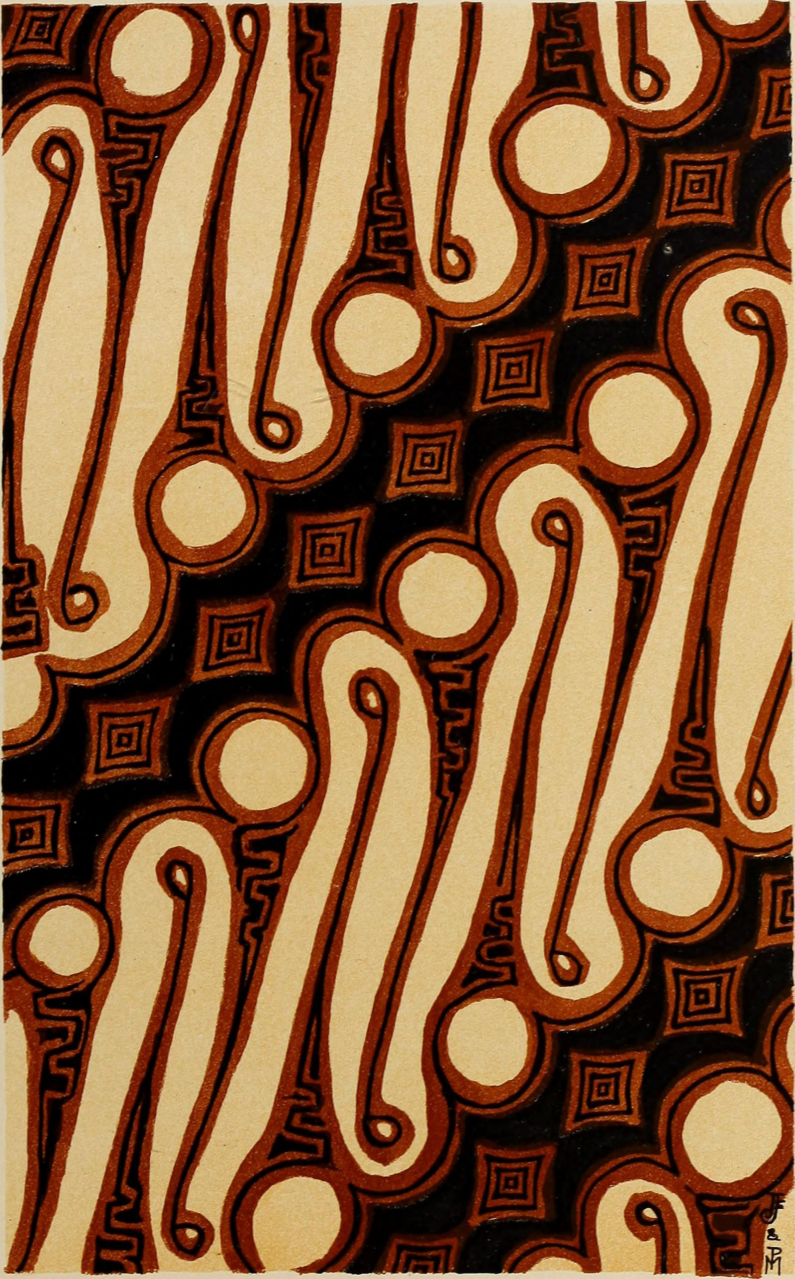 Title: De inlandsche kunstnijverheid in Nederlandsch Indië Year: 1912 (1910s) Authors: Jasper, J. E Pirngadie, Mas Subjects: Decorative arts Batik Textile fabrics Weaving Publisher: 's-Gravenhage, Mouton & co. Text Appearing Before Image: I1) In de bepalingen, door den Soesoehoenan van Soerakarta uitgevaardigd op 5 Djoemadi1 avval van hetJavaansche jaar 1716 staat inderdaad „përang roesak. (2) Ongeveer eenzelfde teekening trof ik aan op een vermoedelijk uit Madjapait-tijd afkomstigen pot, welketeekening op een rij bladeren duidde, allen met omgekrulde punt. J54 Text Appearing After Image: Plaat 13. HET VORSTELIJKE PATROON PARANG ROESAK. (Zie blz. 153 t/m 157.J dat nog niet ontloken blad vertoont een krul, die dan ook in de Javaansche versieringskunst meer en meer het symbool geworden is van jong leven f1). De beteekenis van den naam parang roesak heeft zich zoover gewijzigd, dat de Javaan in dit patroon thans meent te zien: de kris-of rots-(parang)-figuur, die beschadigd (roesak) is. Vandaar de navolgende legenden: Pandji, de vorst van Djënggala, zou in het huwelijk treden met Poetri sekar tadji, dochter van den vorst van Kediri, toen hij verliefd werd op Dèwi Angrèni, dochter van den patih van Djéngala, een van zijn dienaren. Pandjis vader, hierover ontstemd, gaf daarop aan zijn anderen zoon, Toemenggoeng Bradja Nata een kris, en gelastte hem daarmee Dèwi Angrèni te dooden. Toen zulks gebeurde, droeg Pandji juist een kleed van p arang-teekeningenvan toen af aan, omdat de